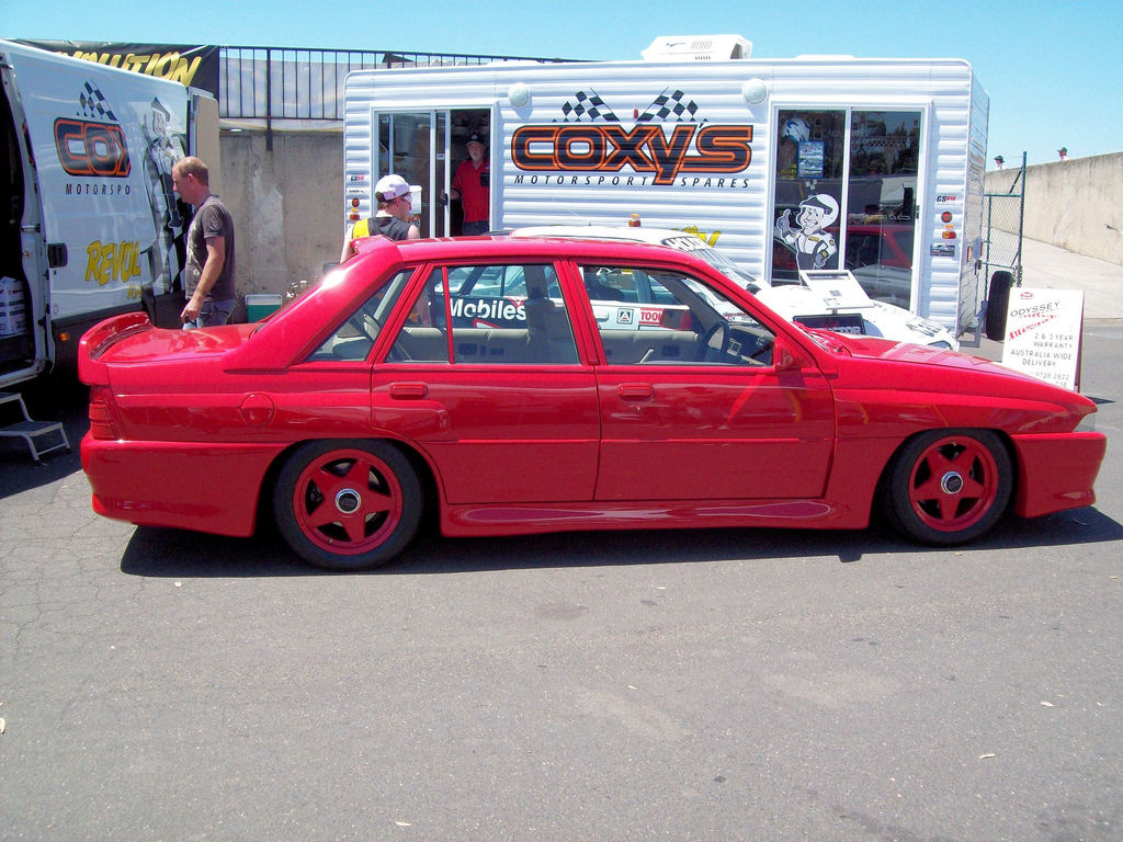 1987 HDT Director in Maranello Red on display at the 2009 Historic Sandown